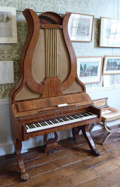 Lyre piano at Finchcocks, Goudhurst Probably made in Berlin in about 1830. One of over 100 historic keyboard instruments owned by pianist and collector, Richard Burnett. He bought the Grade I listed Georgian manor house in 1971 and it houses this important collection. The house was opened to the public in 1977.